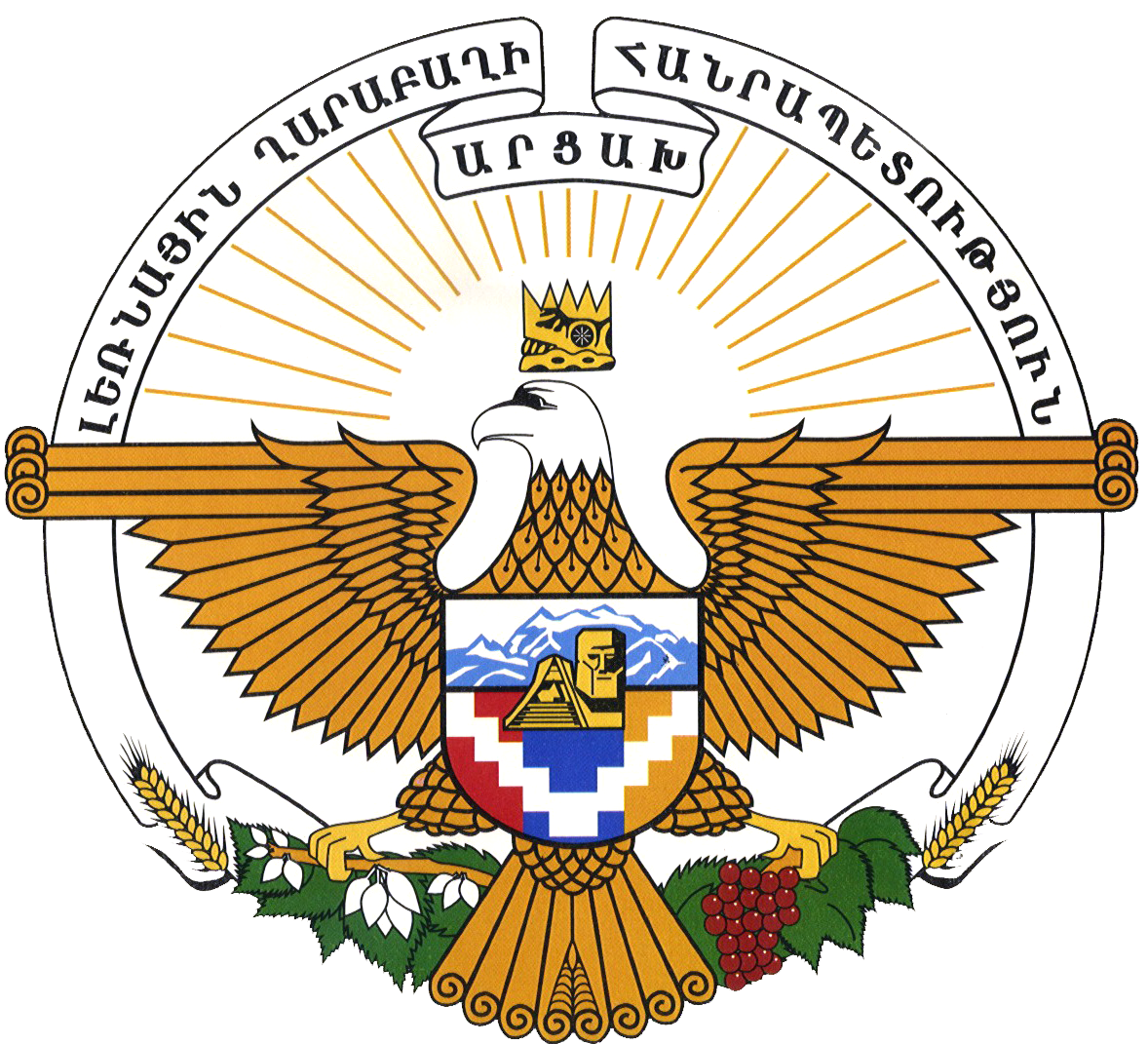 The national emblem of the Artsakh Republic, a de-facto state in the Caucasus.